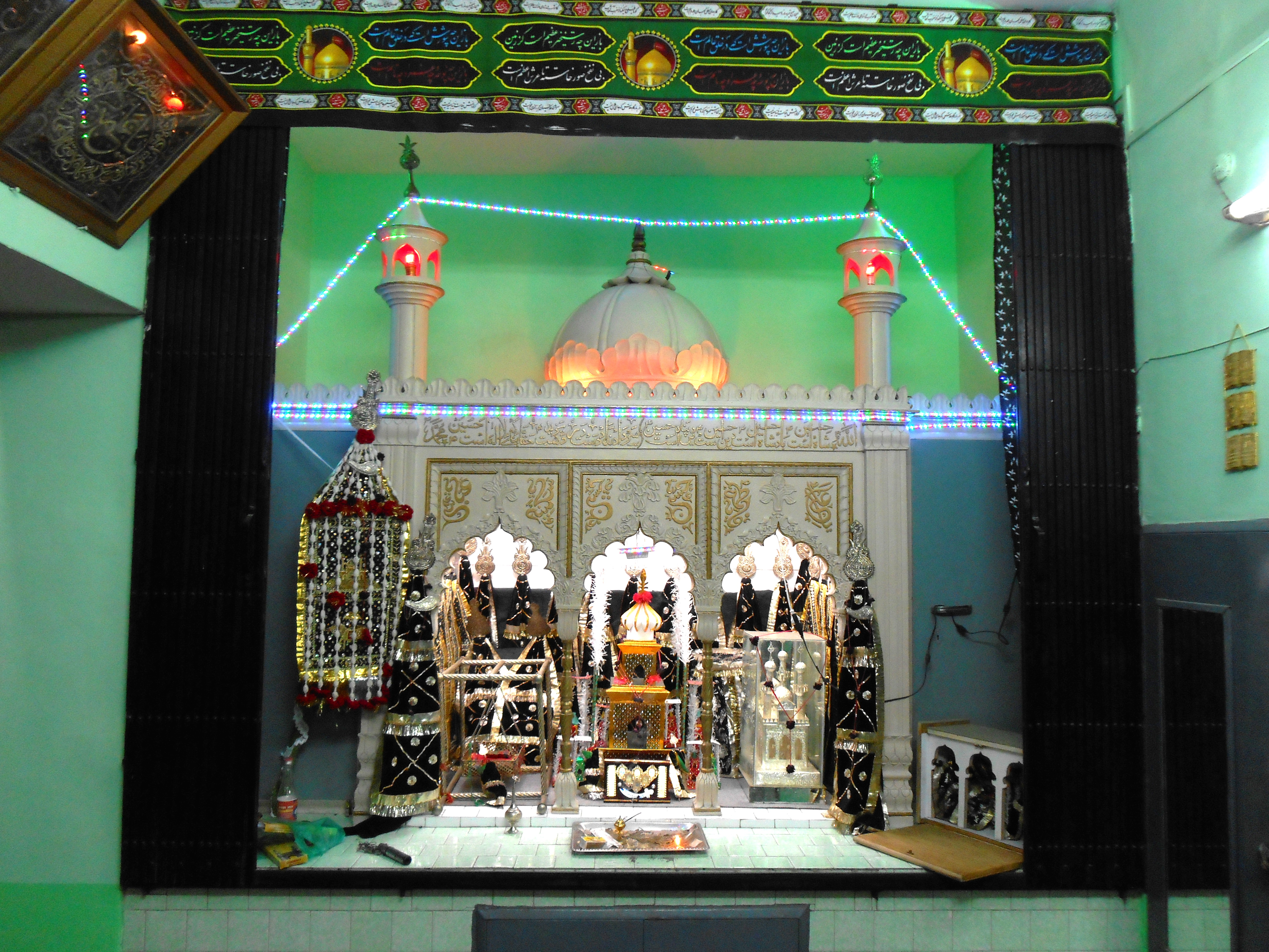 This Imambara is situated at the residence of Mr. Aziz Alam, Sharif Manzil, Husainabad, Lucknow, India.